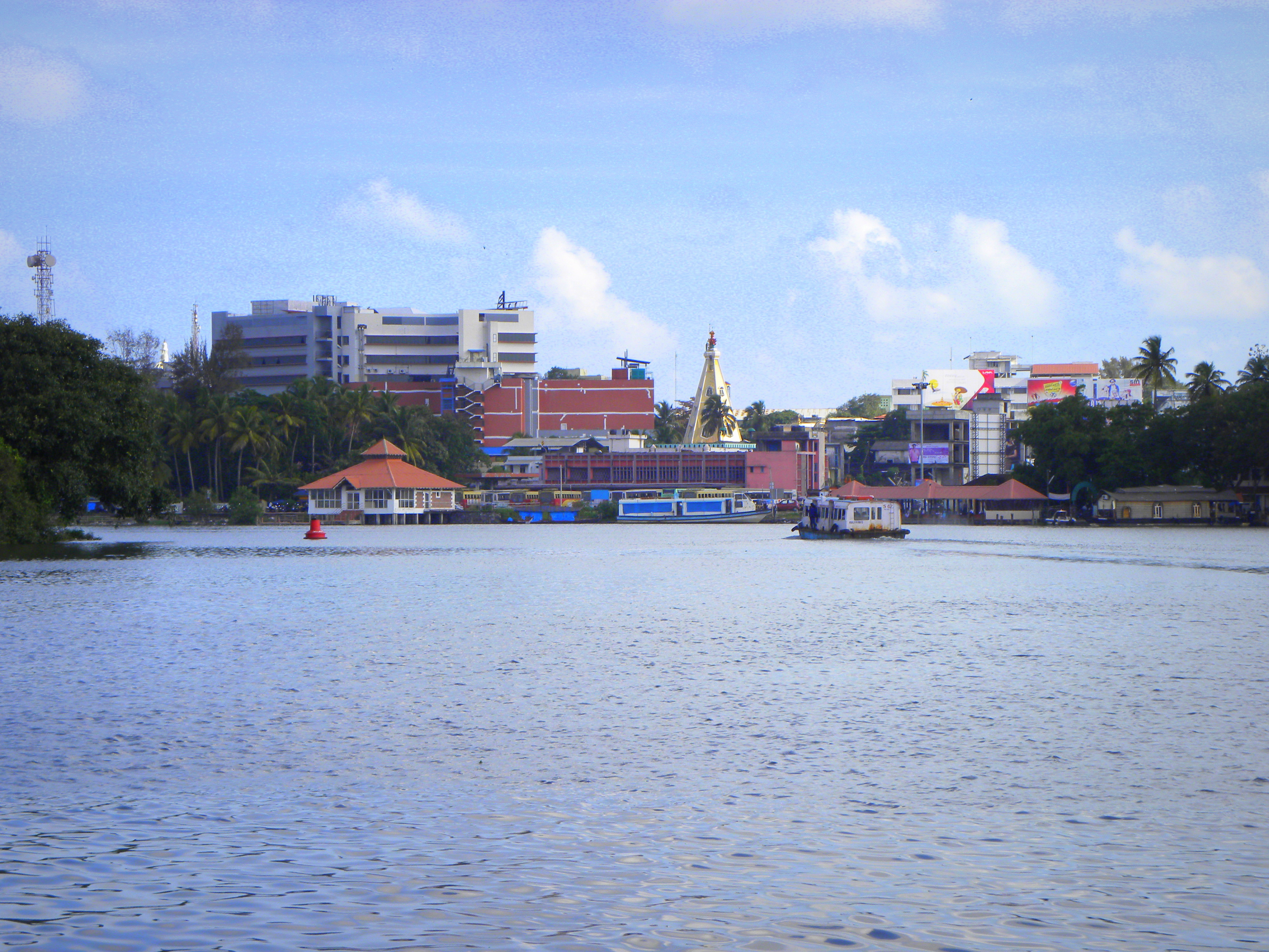 View of Kollam City's outer Downtown area from Asramam Adventure Park